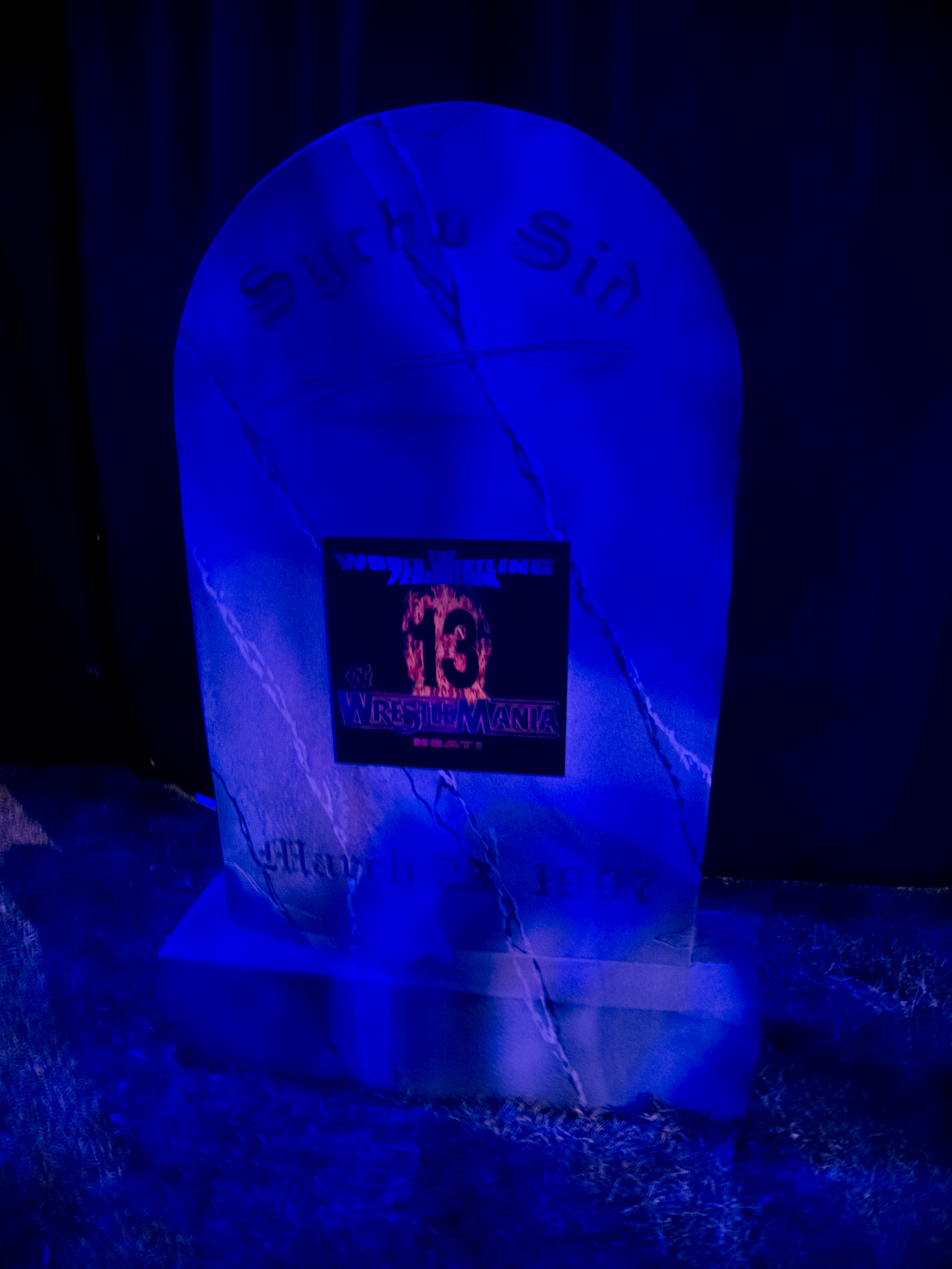 The Undertaker's Graveyard @ Axxess